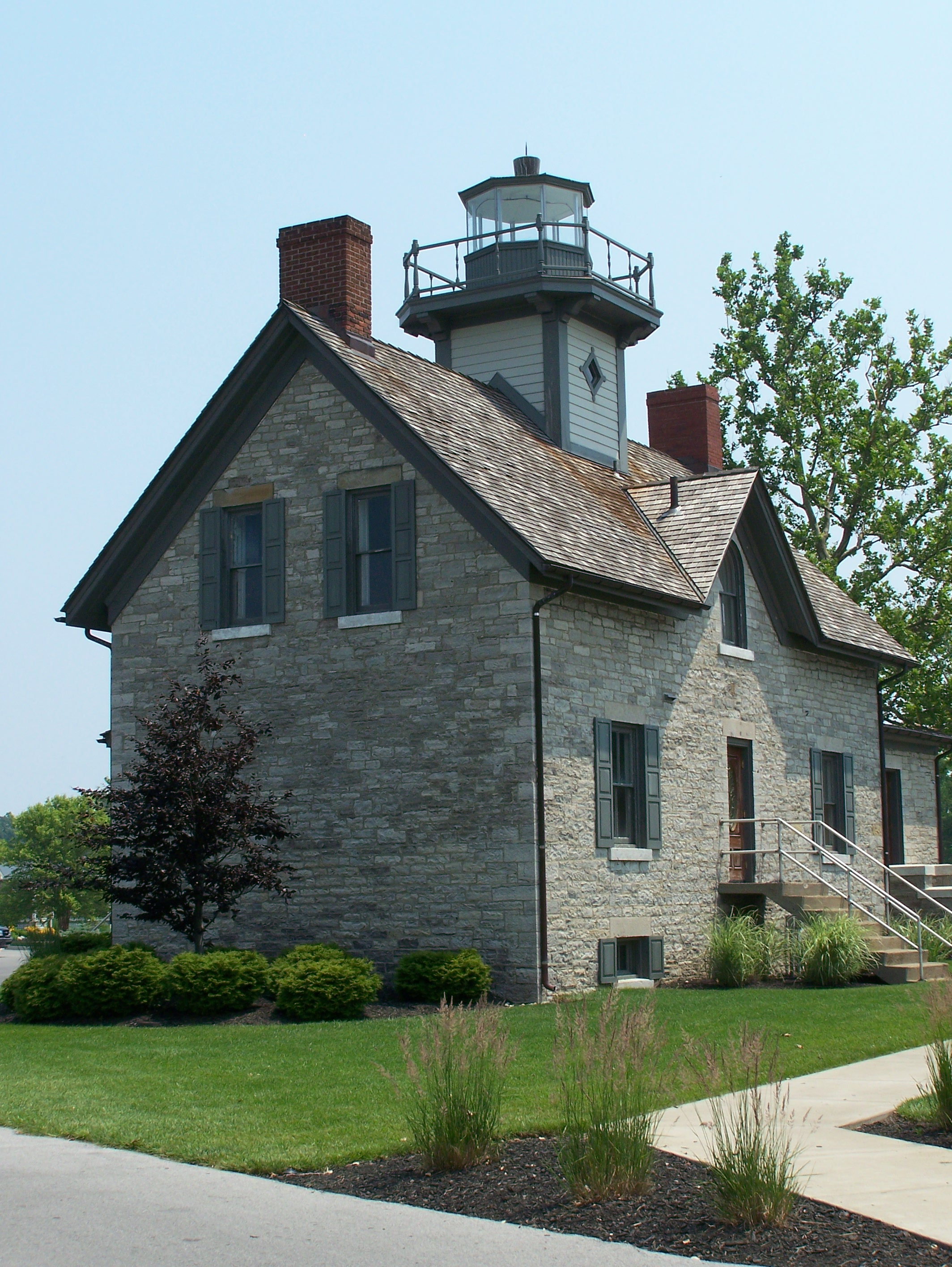 Side and rear of the Cedar Point Lighthouse, located at Cedar Point in Sandusky, Ohio, United States. Built in 1862, it is listed on the National Register of Historic Places.